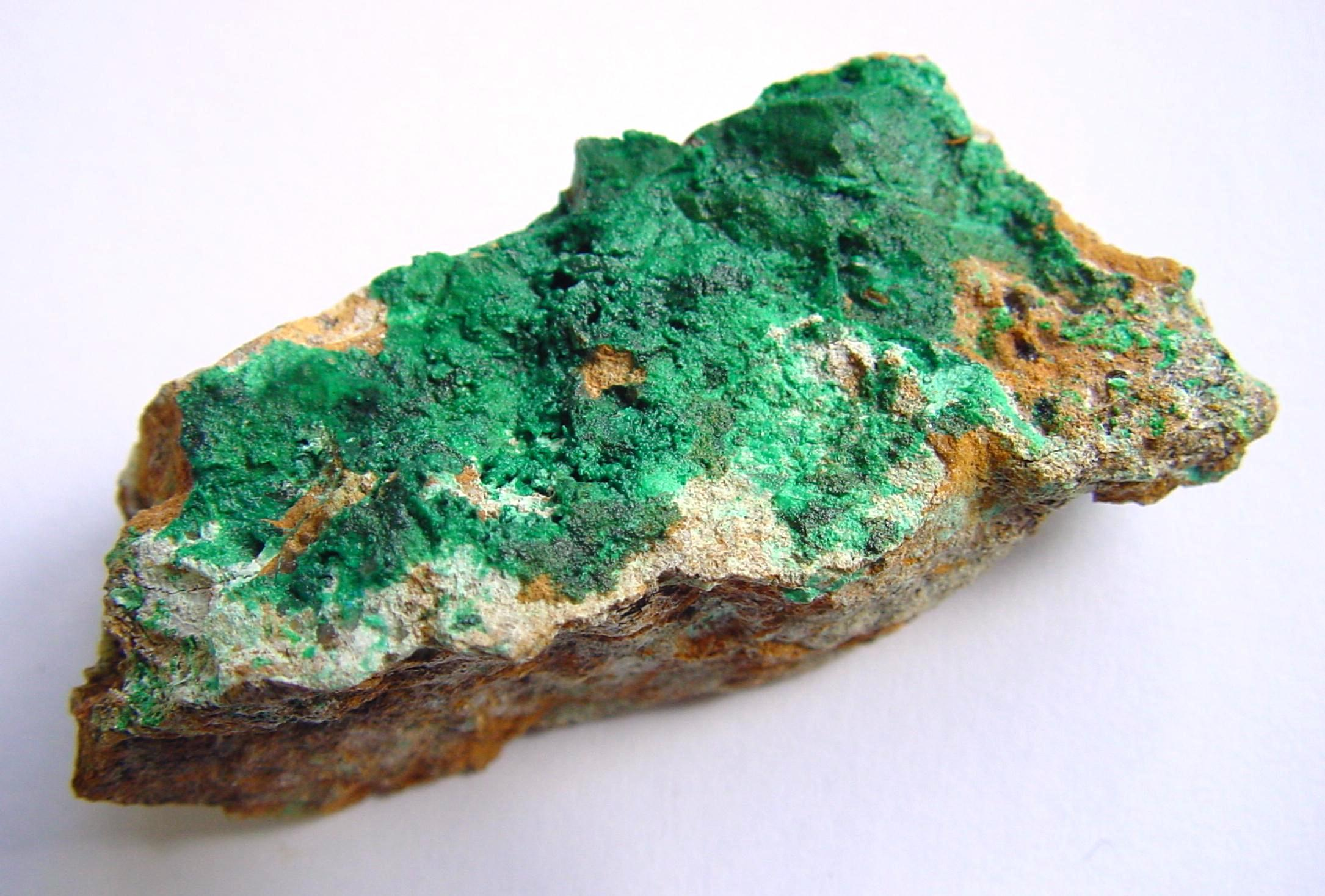 Cornubite from the Majuba Hill Mine, Antelope District, Nevada, USA. Specimen size 5 cm.